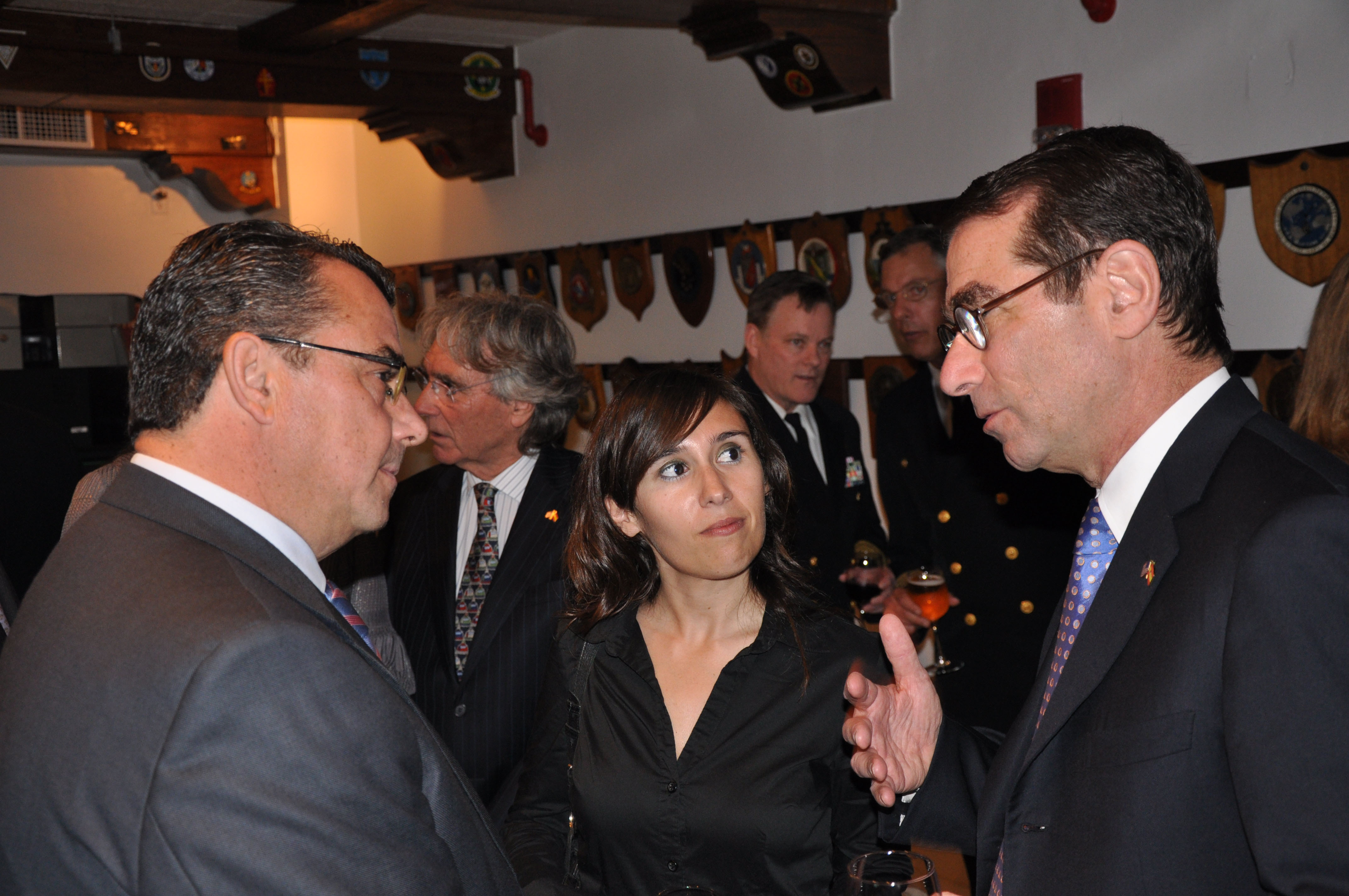 U.S. ambassador to Spain and Andorra, Alan D. Solomont talks with Don Enrique Moresco Garcia, Mayor of El Puerto de Santa Maria, Spain during a reception held at Naval Station Rota, Spain, Feb. 23, 2010. The social event allowed the ambassador to meet with Spanish and American military and local officials as well as local business leaders. Location: Naval Station Rota VIRIN: 100223-N-3289C-580